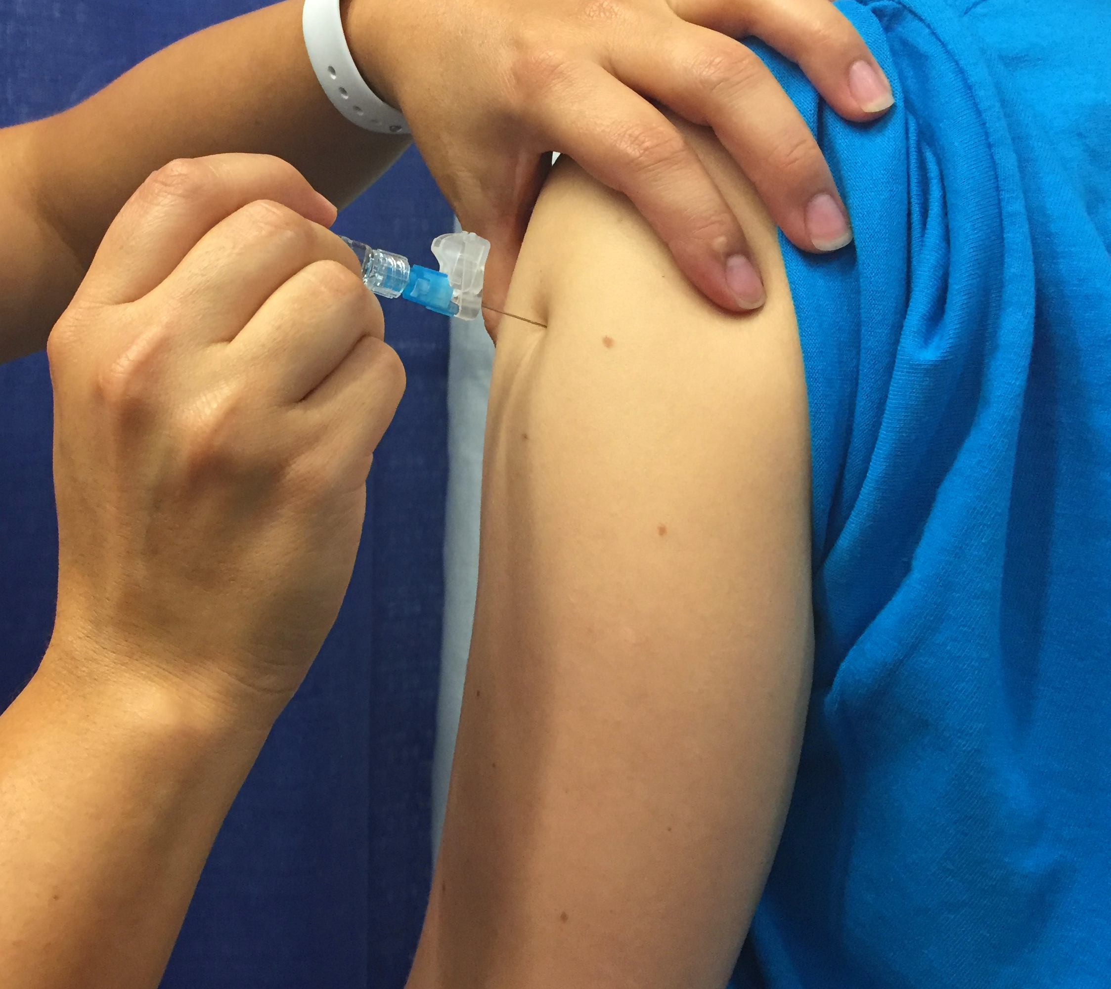 A person receives the seasonal influenza vaccine (flu shot). Credit: NIAID